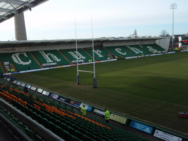 The Charles Church Stand Northampton RFC